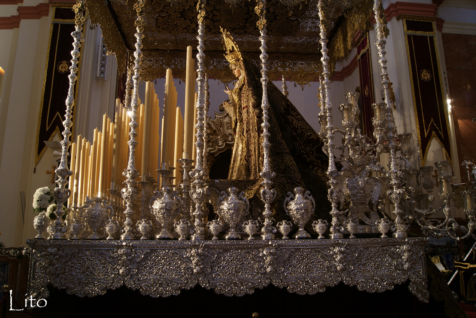 Palio de la Virgen del Patrocinio